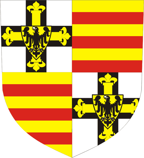 Teutonic Order - Coat of Arms of the Grandmaster Gerhard von Malberg